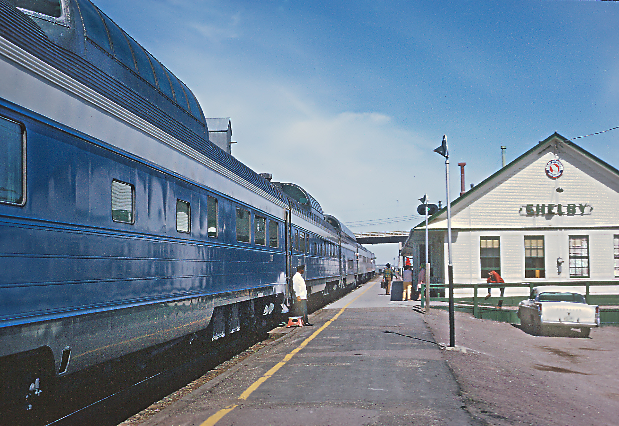 Burlington Northern (ex-GN) Train 32, the Empire Builder, at Shelby, Mont. on May 25, 1970.